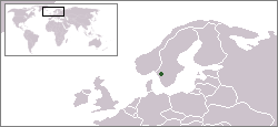 Location map for the Trollhättan, Sweden. Originally created for English Wikipedia by Vardion.